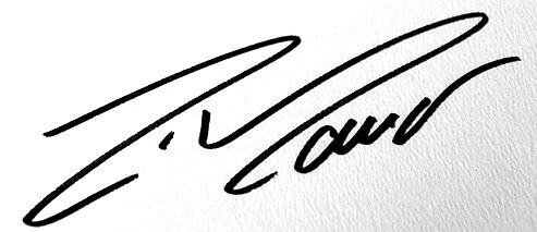 Felipe Massa Autograph.